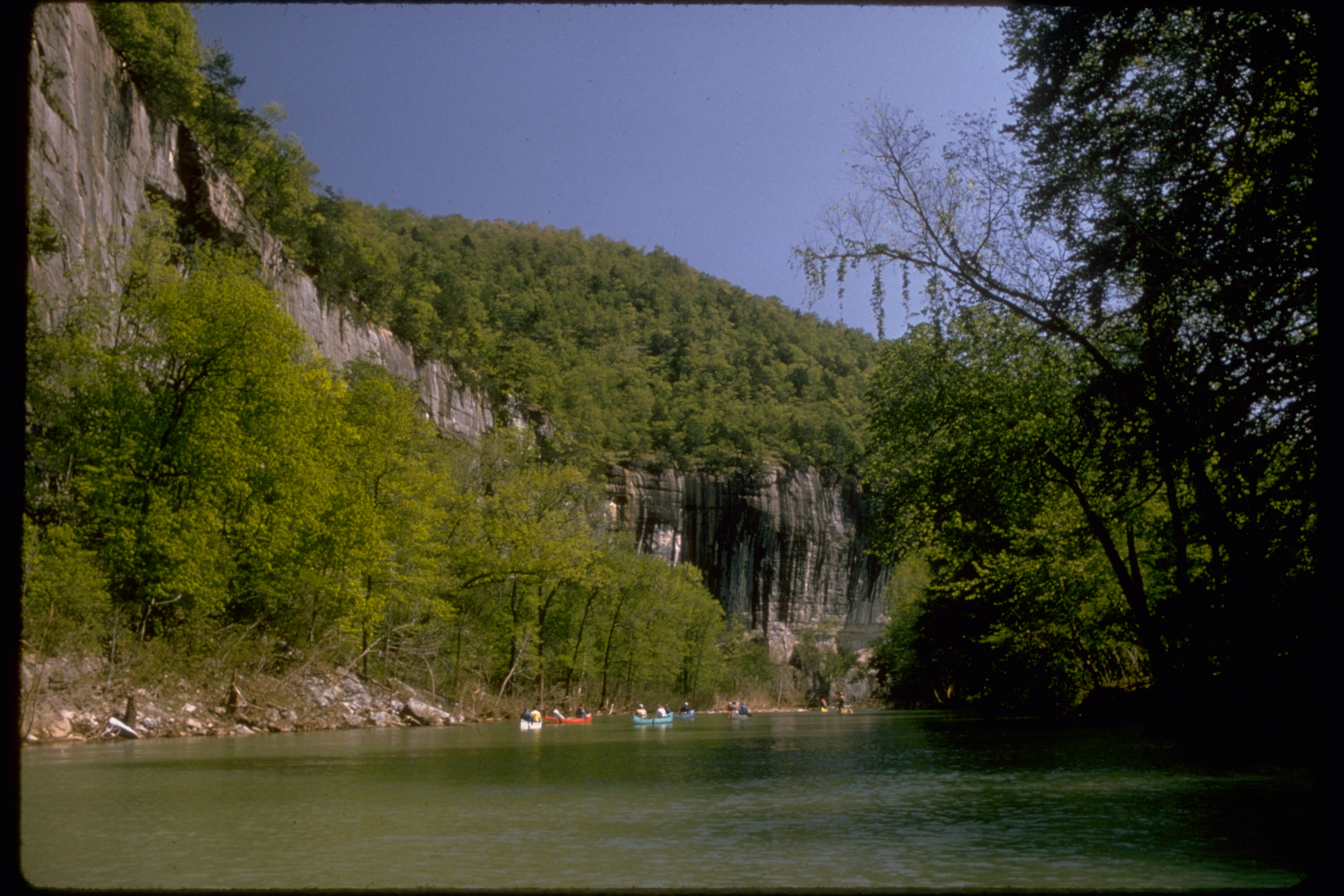 Location Buffalo National River Description The Buffalo National River flows free over swift running rapids and quiet pools for its 135-mile length. One of the few remaining rivers in the lower 48 states without dams, the Buffalo cuts its way through massive limestone bluffs traveling eastward through the Arkansas Ozarks and into the White River.